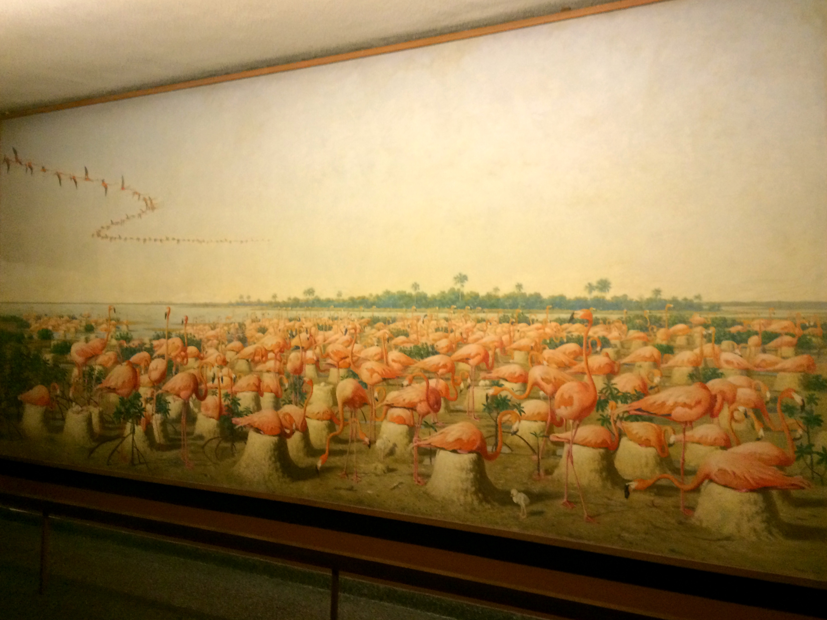 Mural of Flamingo Nesting Grounds by Louis Agassiz Fuertes, American Museum of Natural History